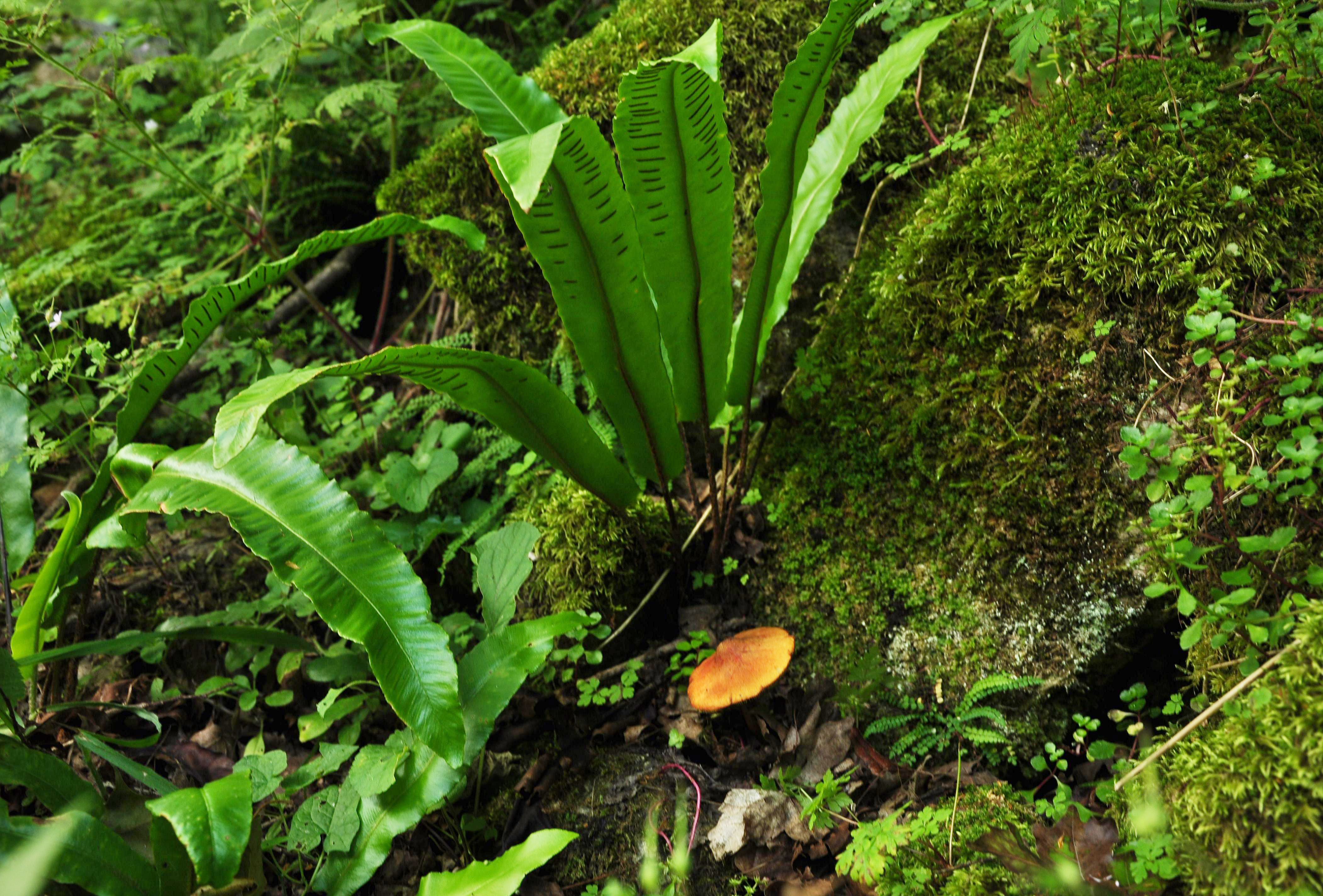 Taken in Shovi